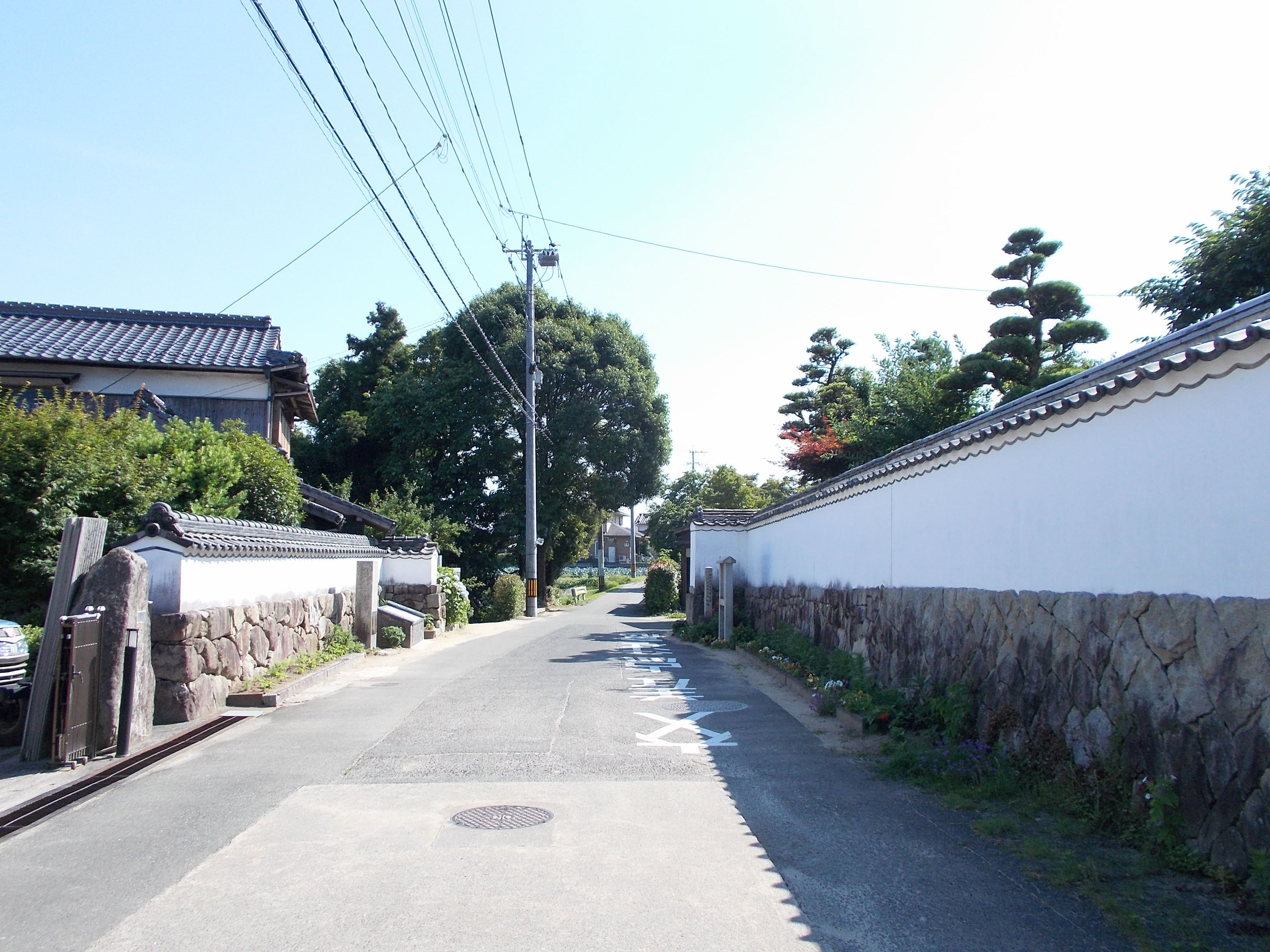 Yamae-shuku West Gate and Earthen Wall, Chikushino, Fukuoka, Japan